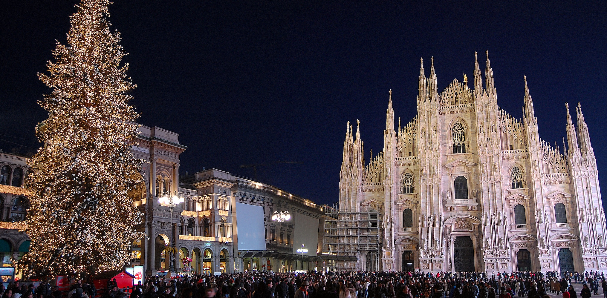 Piazza Duomo in Milan during Christmas holidays 2008. On the left a Christmas tree in front of the Galleria Vittorio Emanuele II